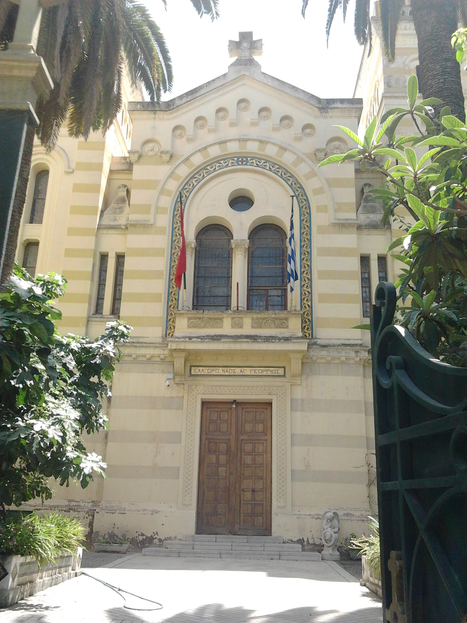 Saint George Orthodox Cathedral (Tunis)